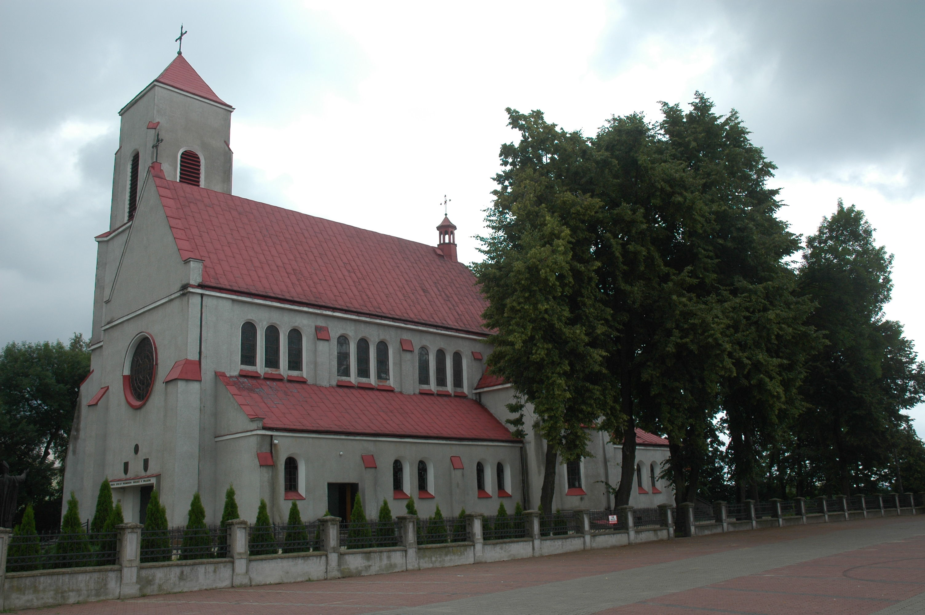 Roman Catholic Parish of the Transfiguration (Wieliszew)